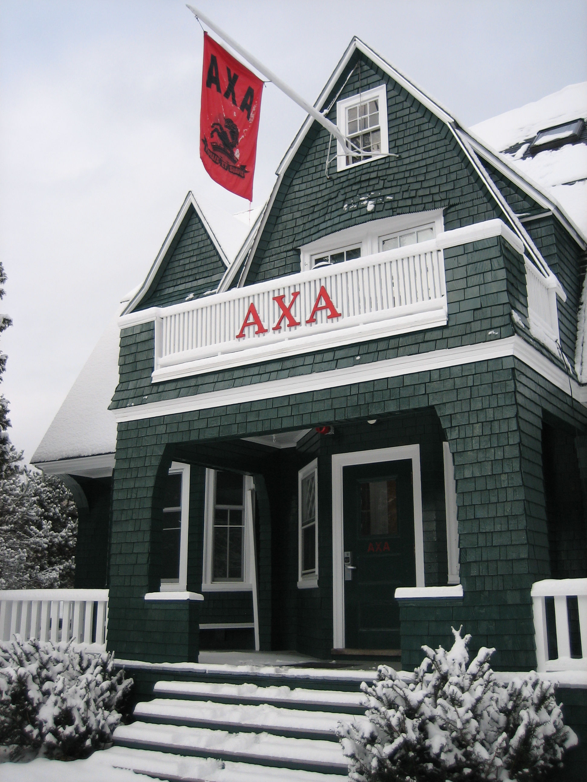 Picture of Dartmouth College's AXA house